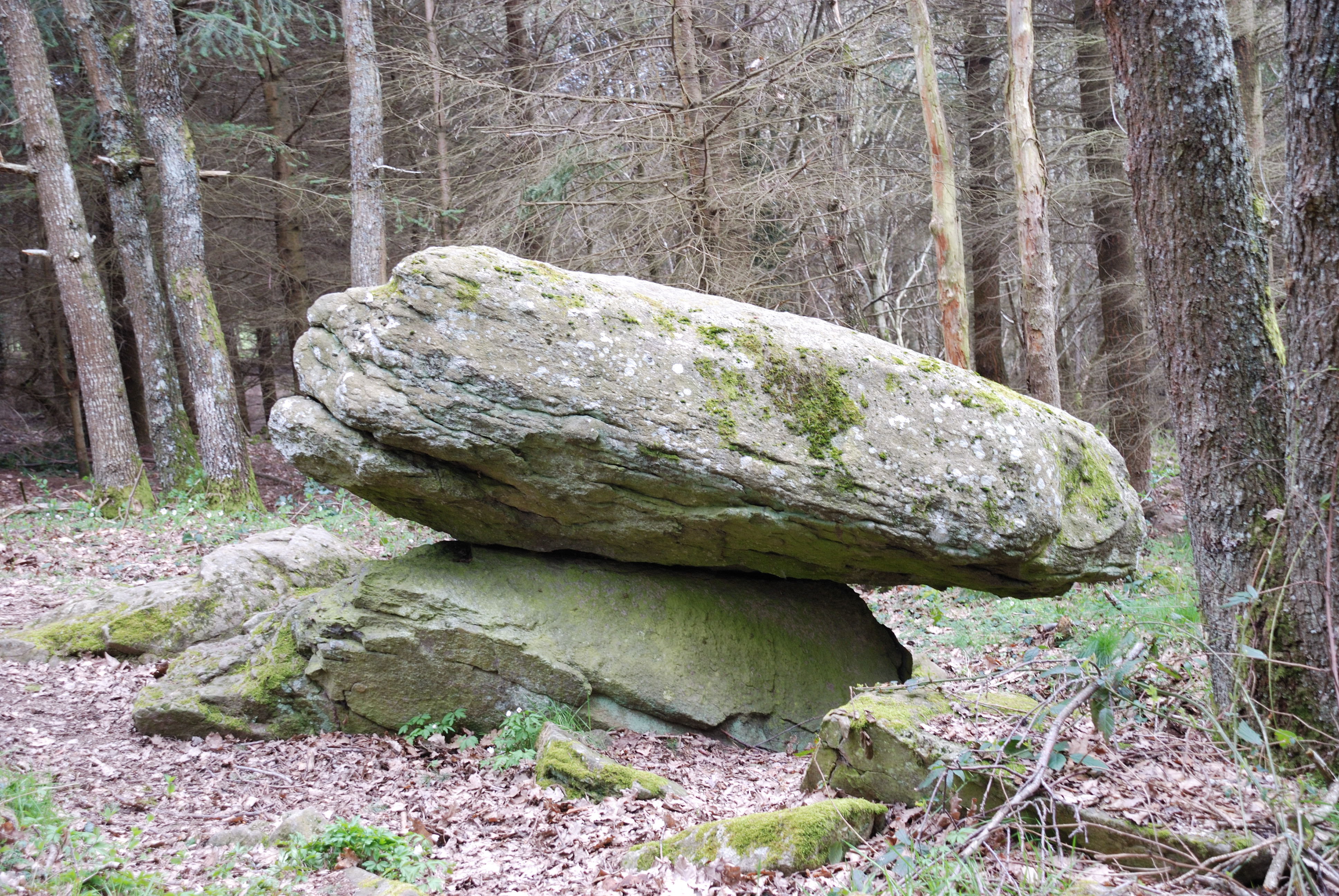 The "Pierre branlante (shaky stone) near the small hamlet of Ballages(commune of Combronde, Puy-de-Dôme, France, position N 45° 59' 39,9" E 003°03'03,4").